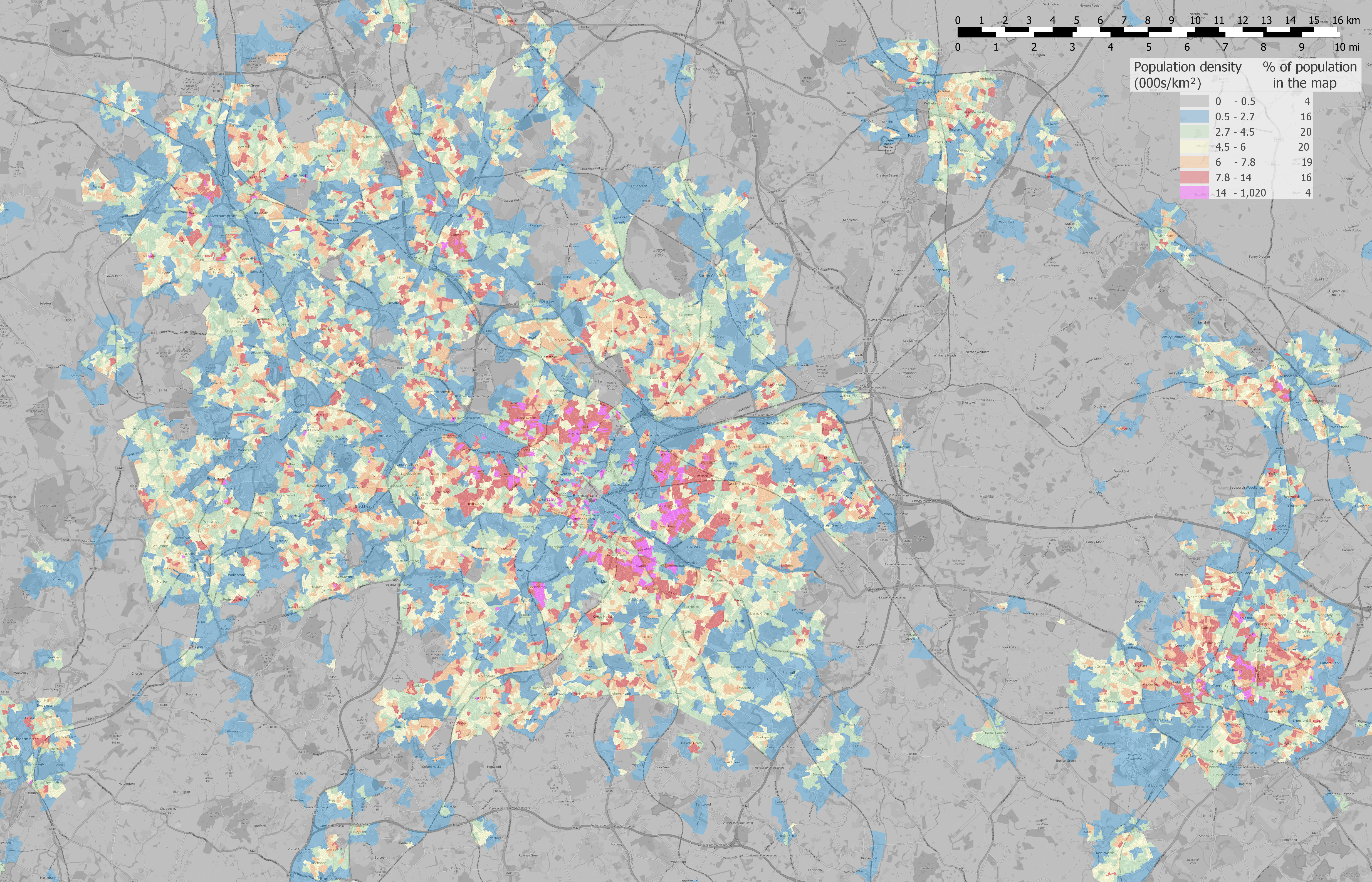 The map area was inhabited by 3.3 mln people in 2011, 2.7 mln in West Midlands county. Population density computed from 2011 Output Area (OE) data and there is on 2020 map so new neighbourhoods are visible in the grey zone. Values sometimes are not representative because: sometimes a whole nonresidential area is contained in one from a few adjacent OEs. sometimes OEs encompass only building, sometimes only part of it, to keep up stiff household count limit, what gives very high density. OE boundaries are visible, especially in red and pink.